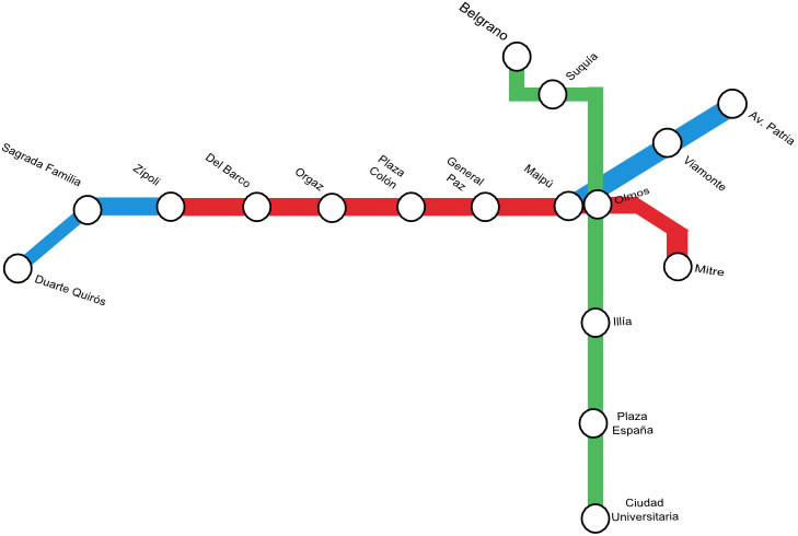 Map of planned subway network in Córdoba